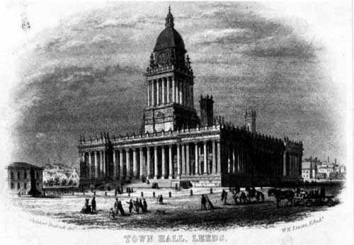 Drawing of Leeds Town Hall